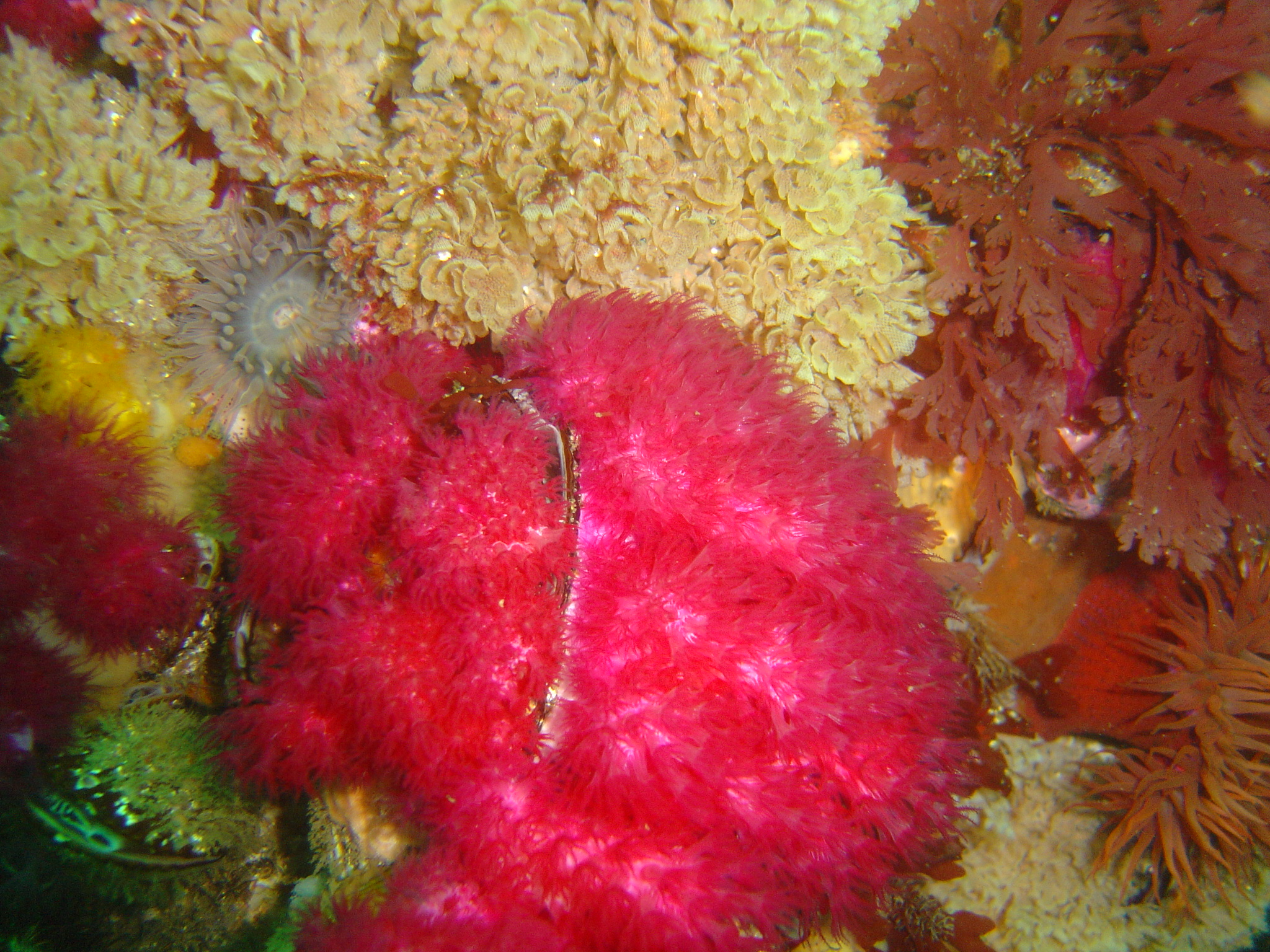 Purple soft coral at Bakoven Rock